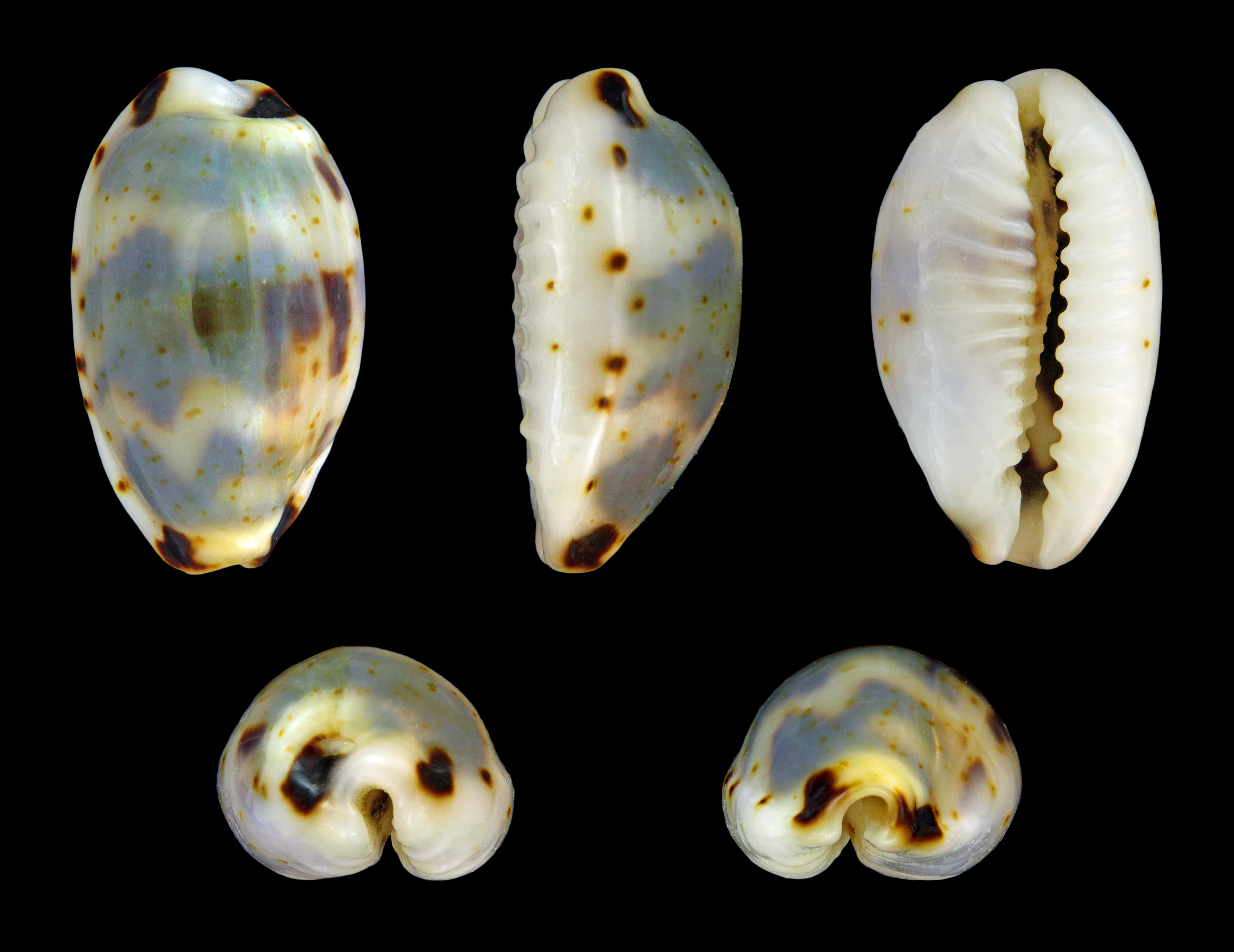 Length 1.2 cm; Originating from Zamboanga, Mindanao, Philippines; Shell of own collection, therefore not geocoded. Dorsal, lateral (right side), ventral, back, and front view.